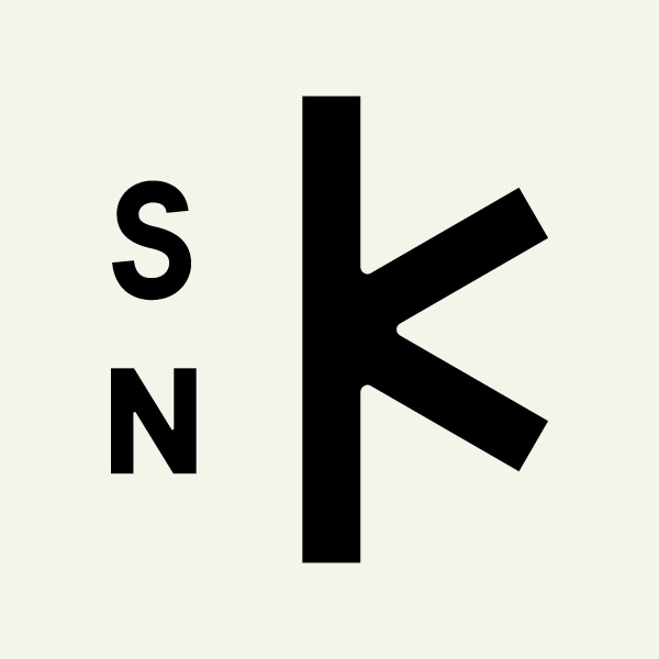 The official logo of SNL